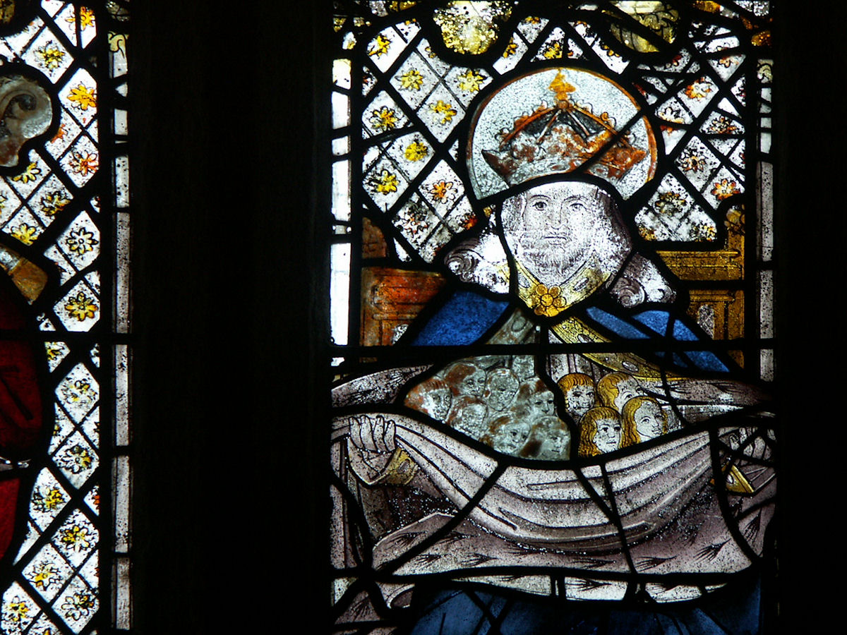 Church of St. Neot, St. Neot, Cornwall, England